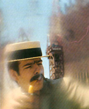 Photograph of David McJonathan-Swarm in front of 1 World Trade Center under construction in 1969. Photograph taken by Edgar de Evia in the 1969.